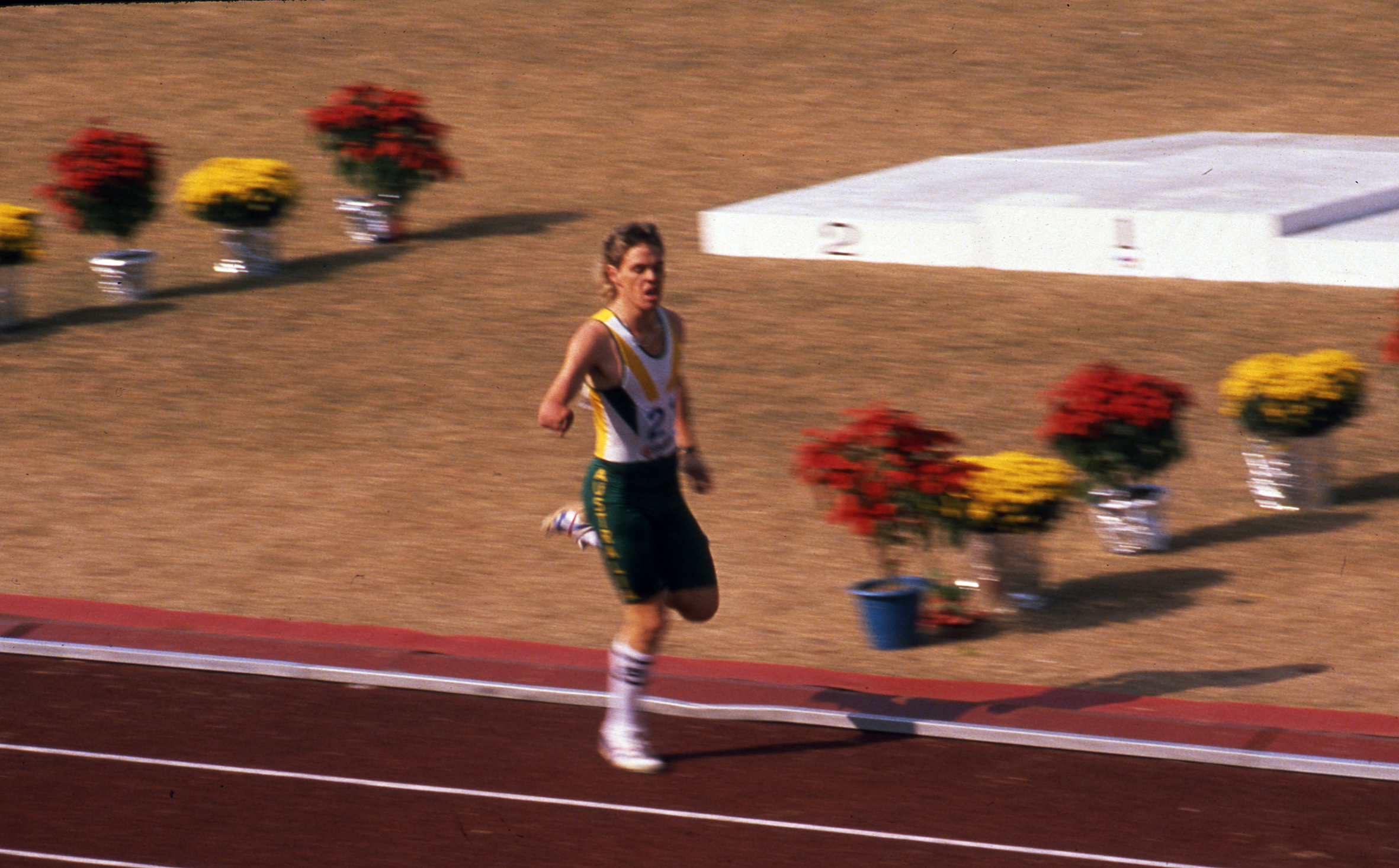 Australian athlete Rodney Nugent in action at the 1988 Seoul Paralympic Games